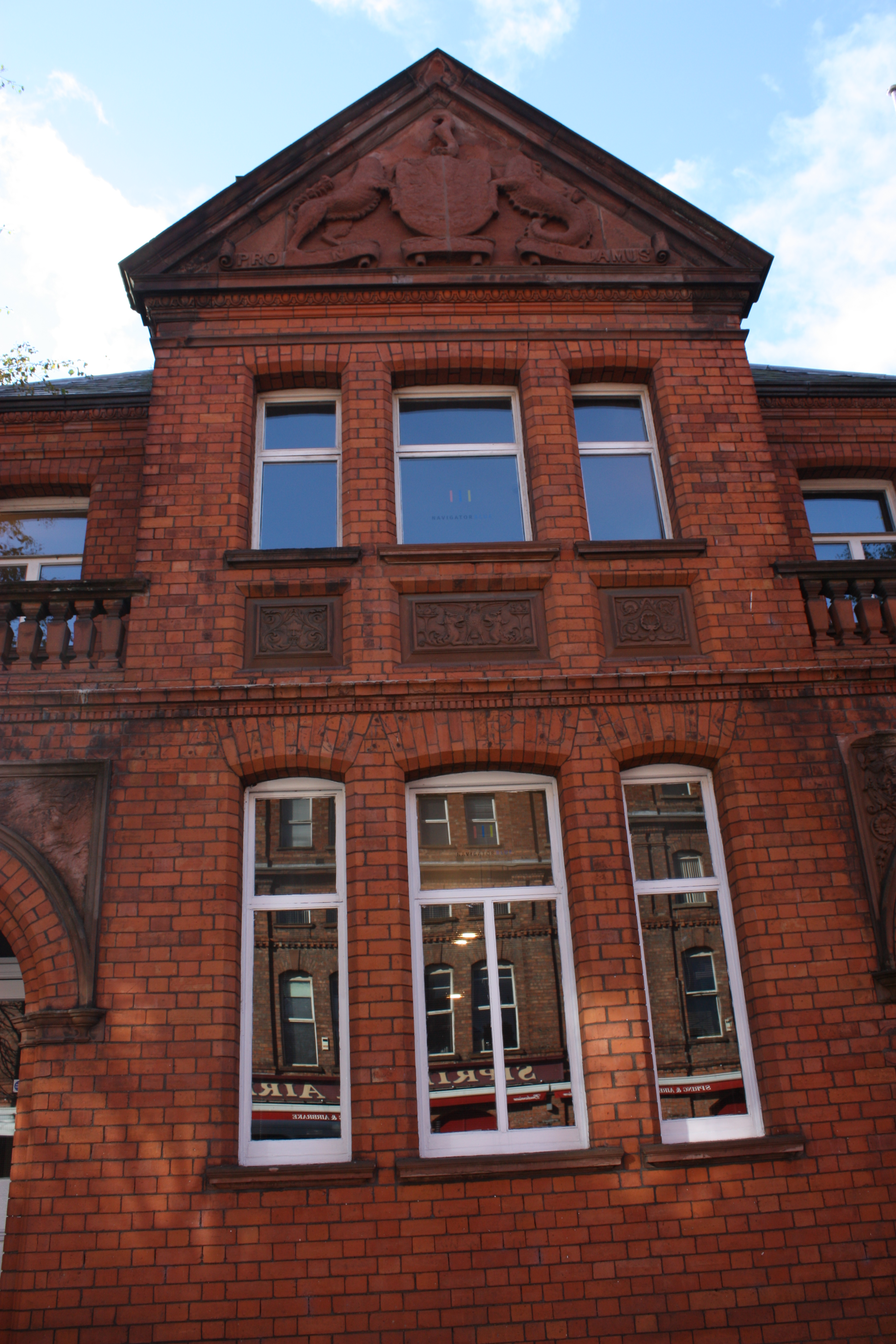 Ormeau Baths Gallery, Ormeau Avenue, Belfast, Northern Ireland, October 2010